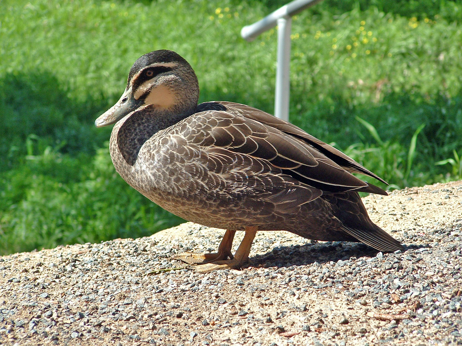 Anas superciliosa (Pacific Black Duck) photographed in Wagga Wagga, New South Wales, Australia